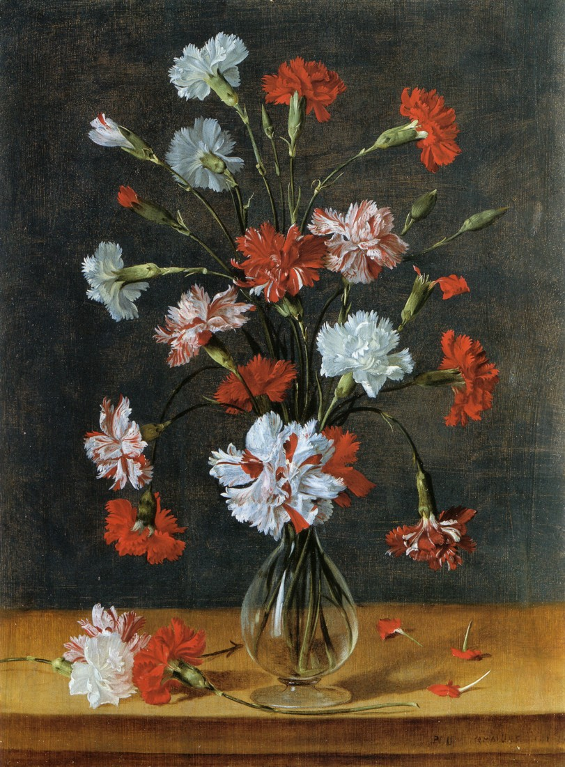 Philippe de Marlier (ca 1600 - ca 1668): Bouquet of Carnations in a glass vase/Nelkenstrauß in Glasvase, 1639